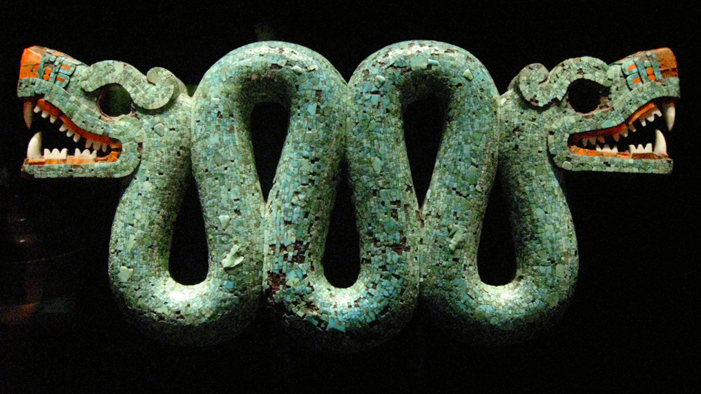 Turquoise mosaic of a double-headed serpent